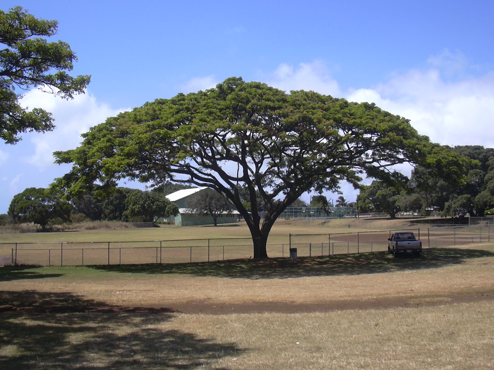 Samanea saman (habit). Location: Maui, Haliimaile